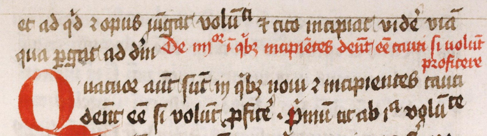 De exterioris et interioris hominis compositione (lib. II-III), Cod. 1081, Bl. 3r